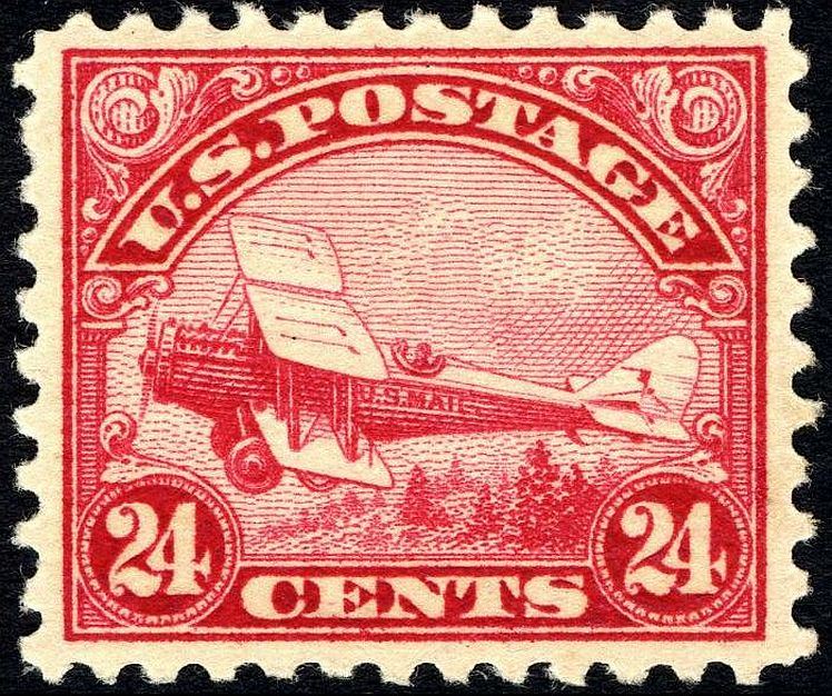 Image of 1923 airmail stamp